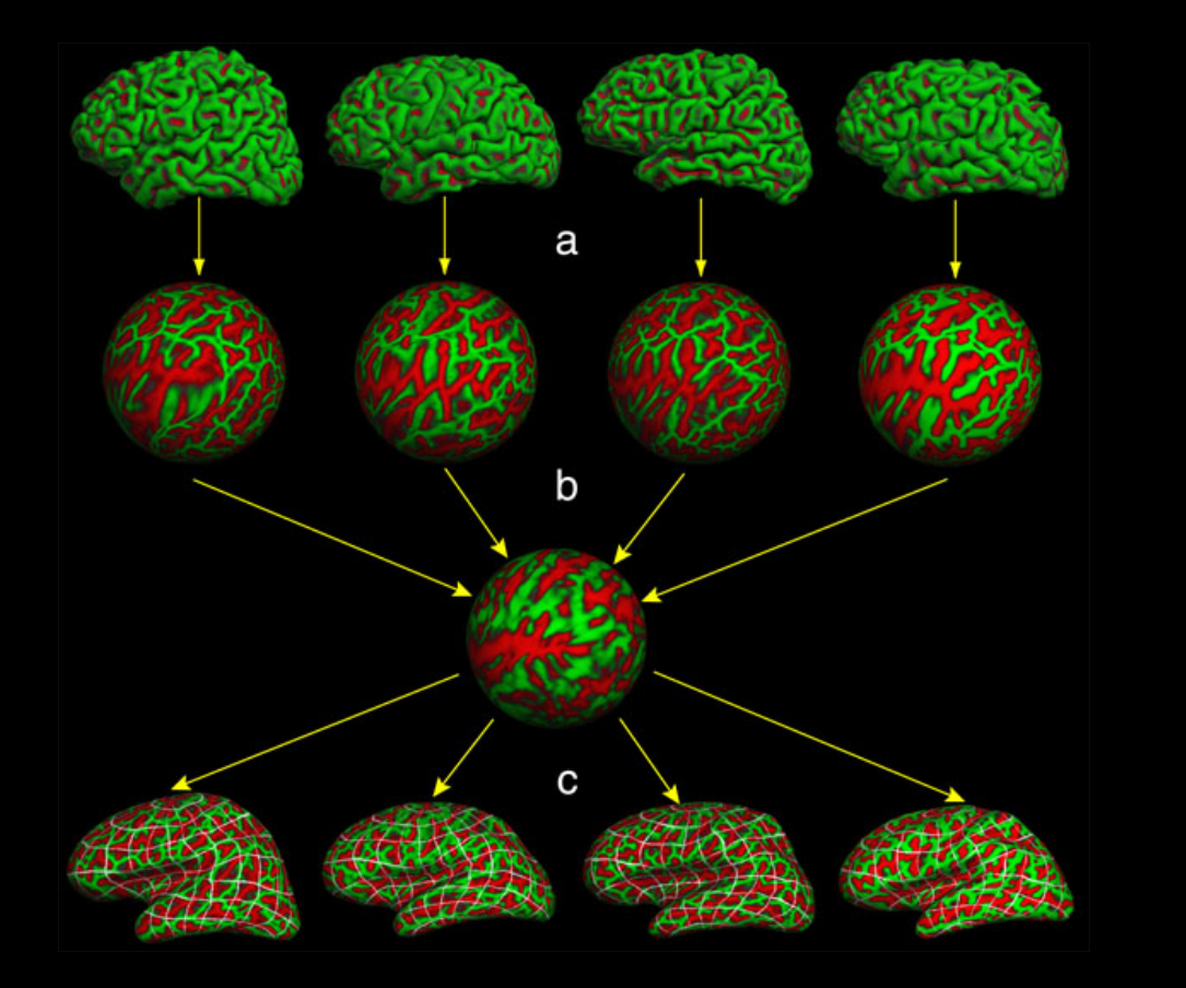 A graphic to display how FreeSurfer morphs surfaces into spheres to aide in inter subject registration.